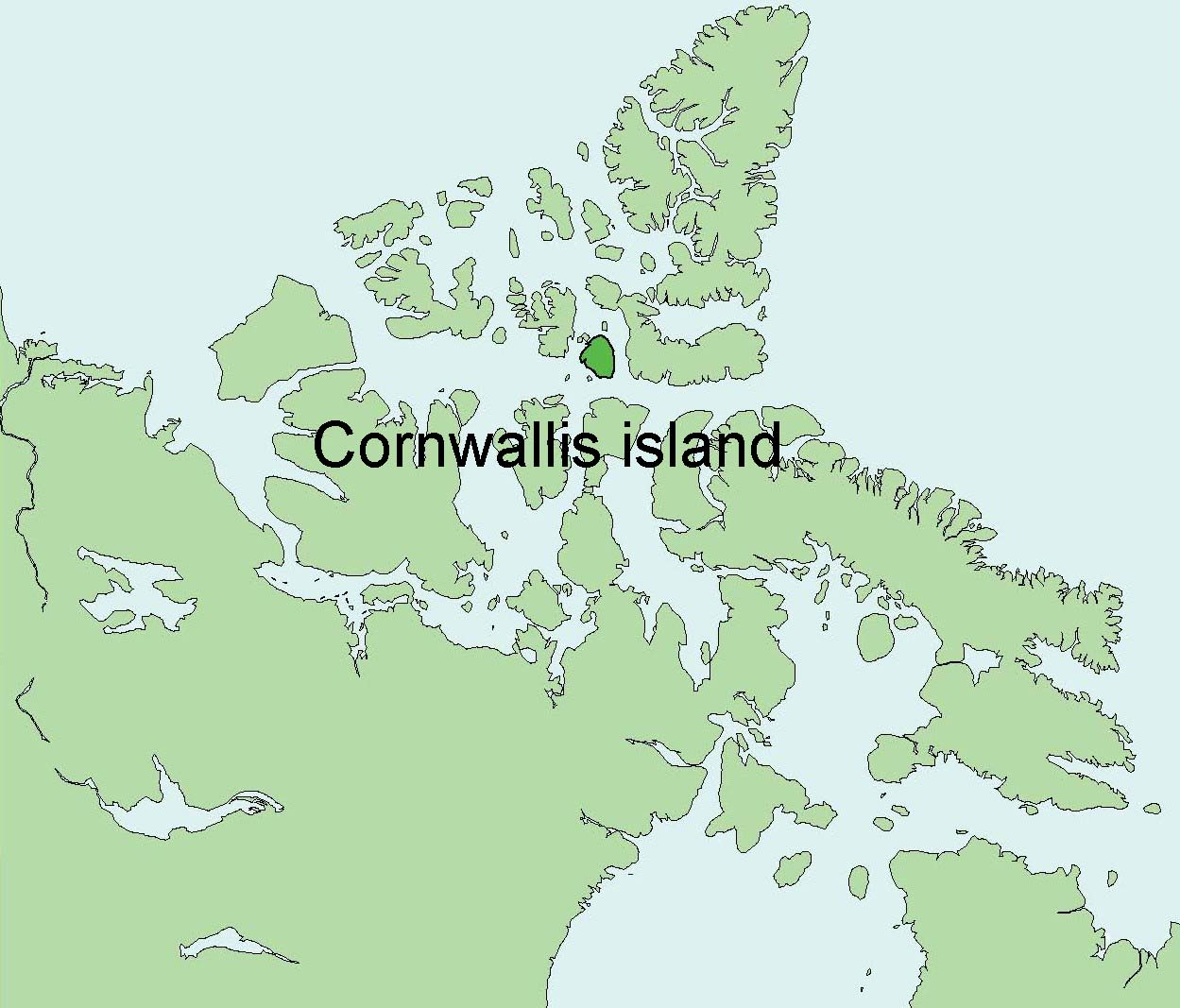 Created based on images from the CIA's World Fact Book.